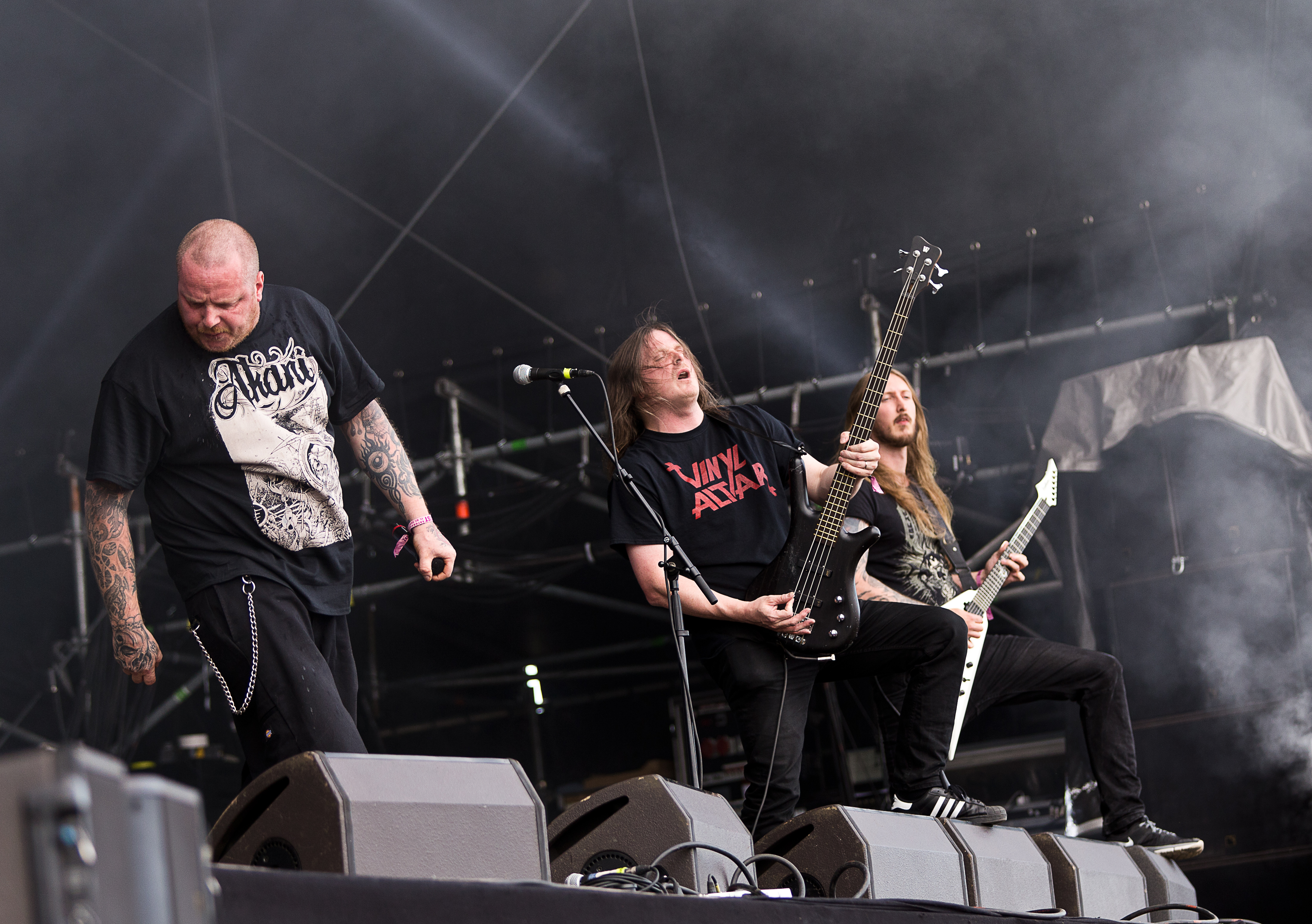 The Swedish thrash metal band The Haunted at the Rockharz Open Air 2015 in Ballenstedt/Germany.